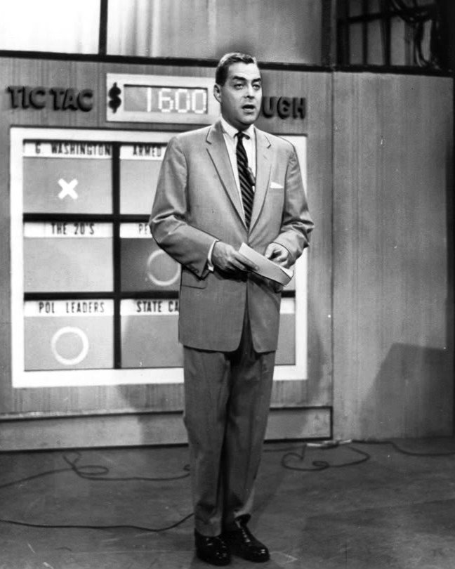 Publicity photo from the television game show Tic Tac Dough with host Jack Barry.